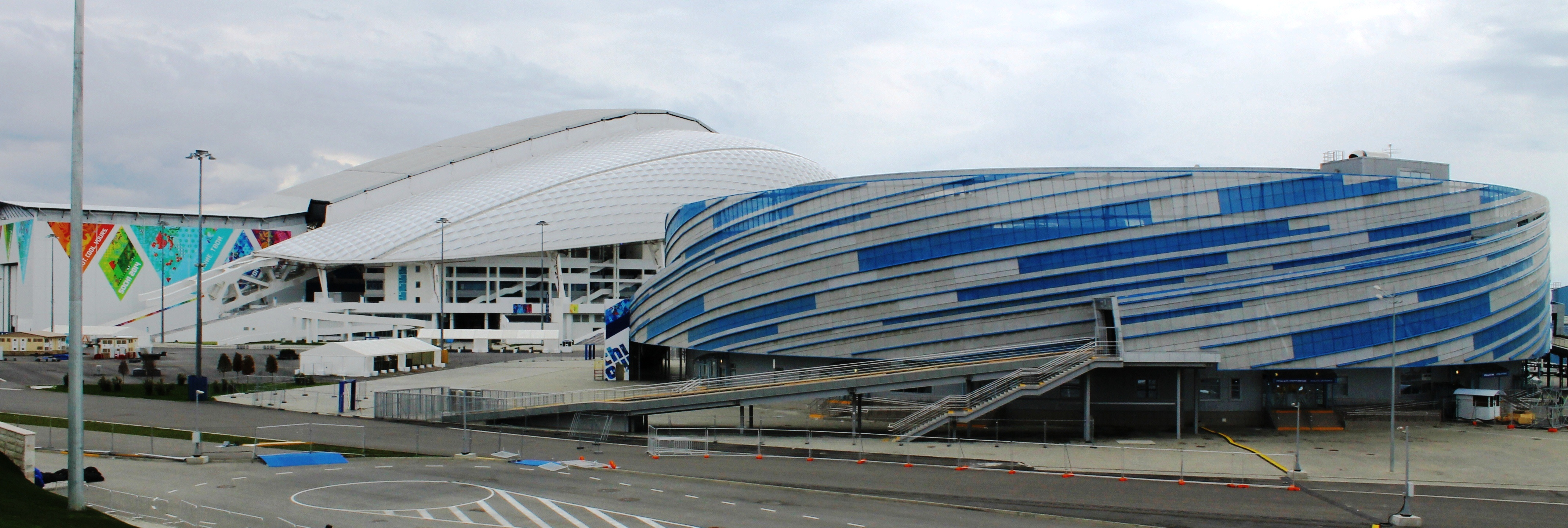 The Shayba Arena and the Olympic stadium Fisht (on a background) in the Olympic Park of Sochi